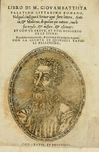 Libro nuovo d’imparare a scrivere, cover, Giovanni Battista Palatino 1540